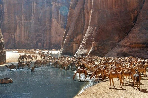 Guelta d'Archei